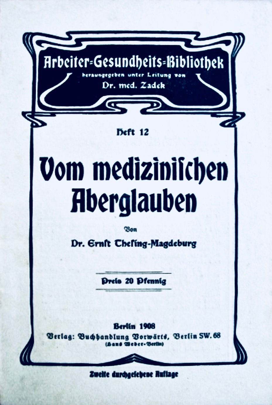 Ernst Thesing: Vom medizinischen Aberglauben (= Arbeiter-Gesundheits-Bibliothek, Vol 12, edited by Dr. Zadek, MD, published by Verlags-Buchhandlung Vorwärts, Berlin SW 68, 1907